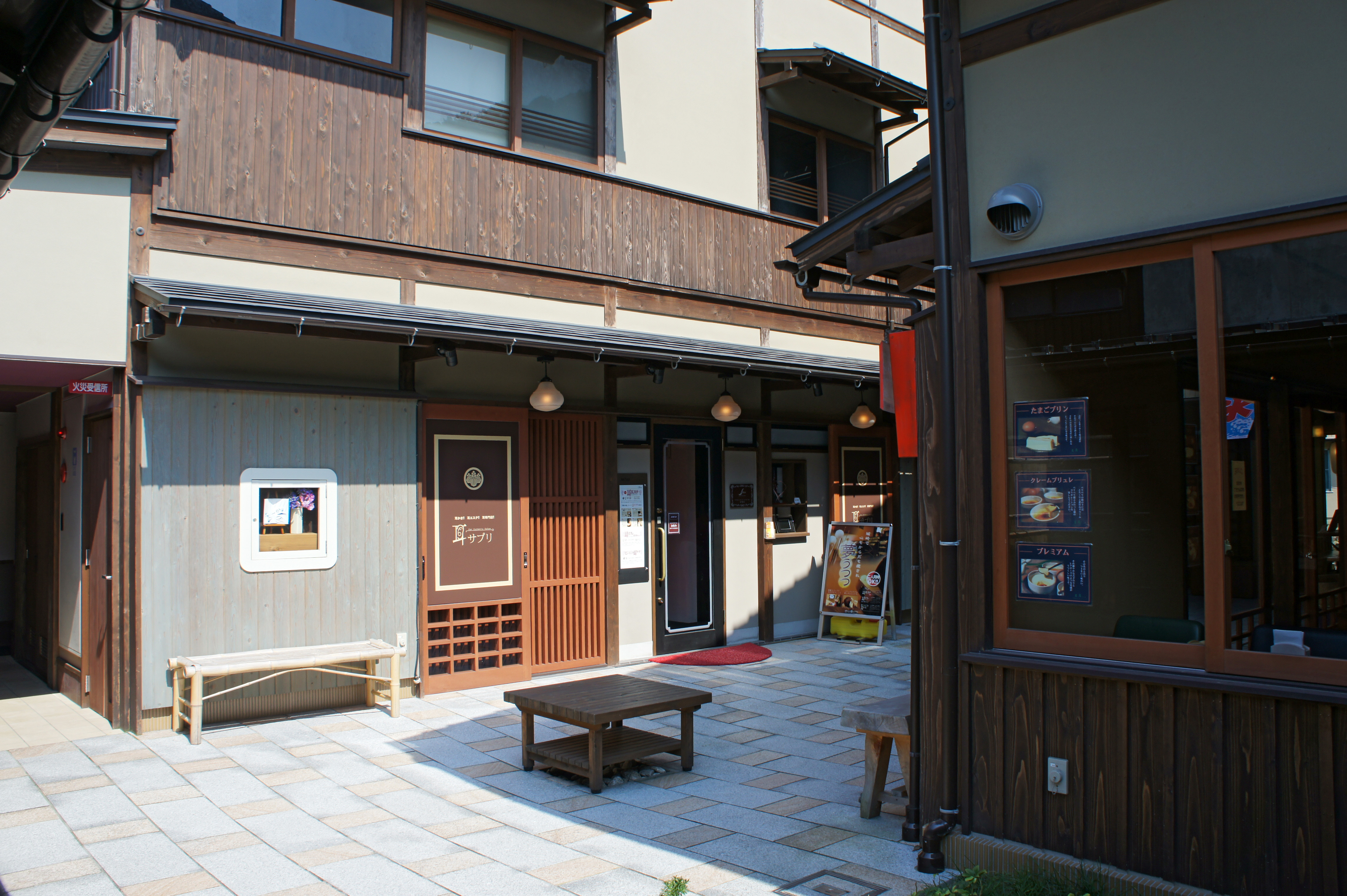 Kiyamachi-kouji of Kinosaki Onsen in Toyooka, Hyogo prefecture, Japan.